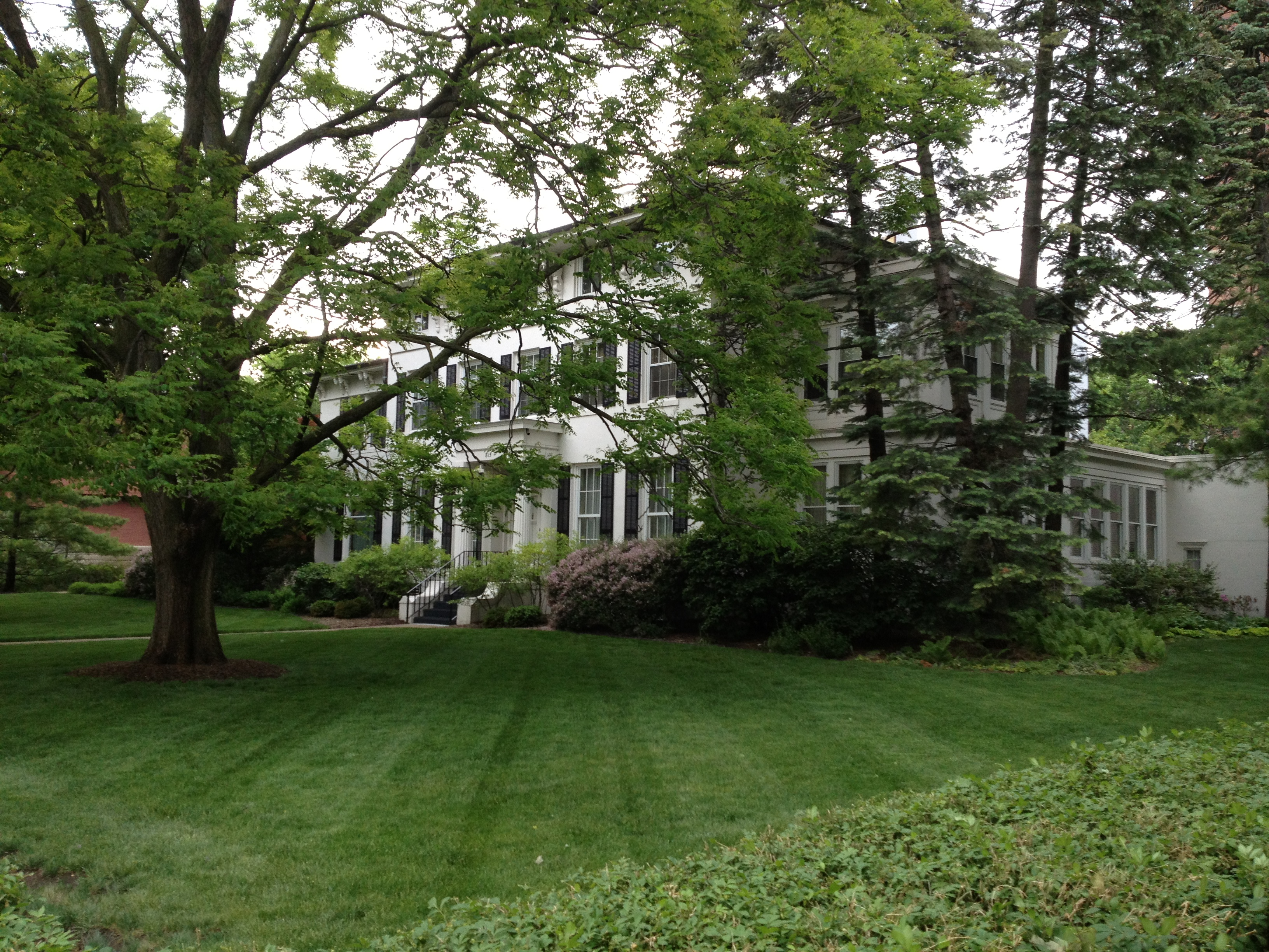 The President's House: the official residence at University of Michigan, Ann Arbor, since 1840.